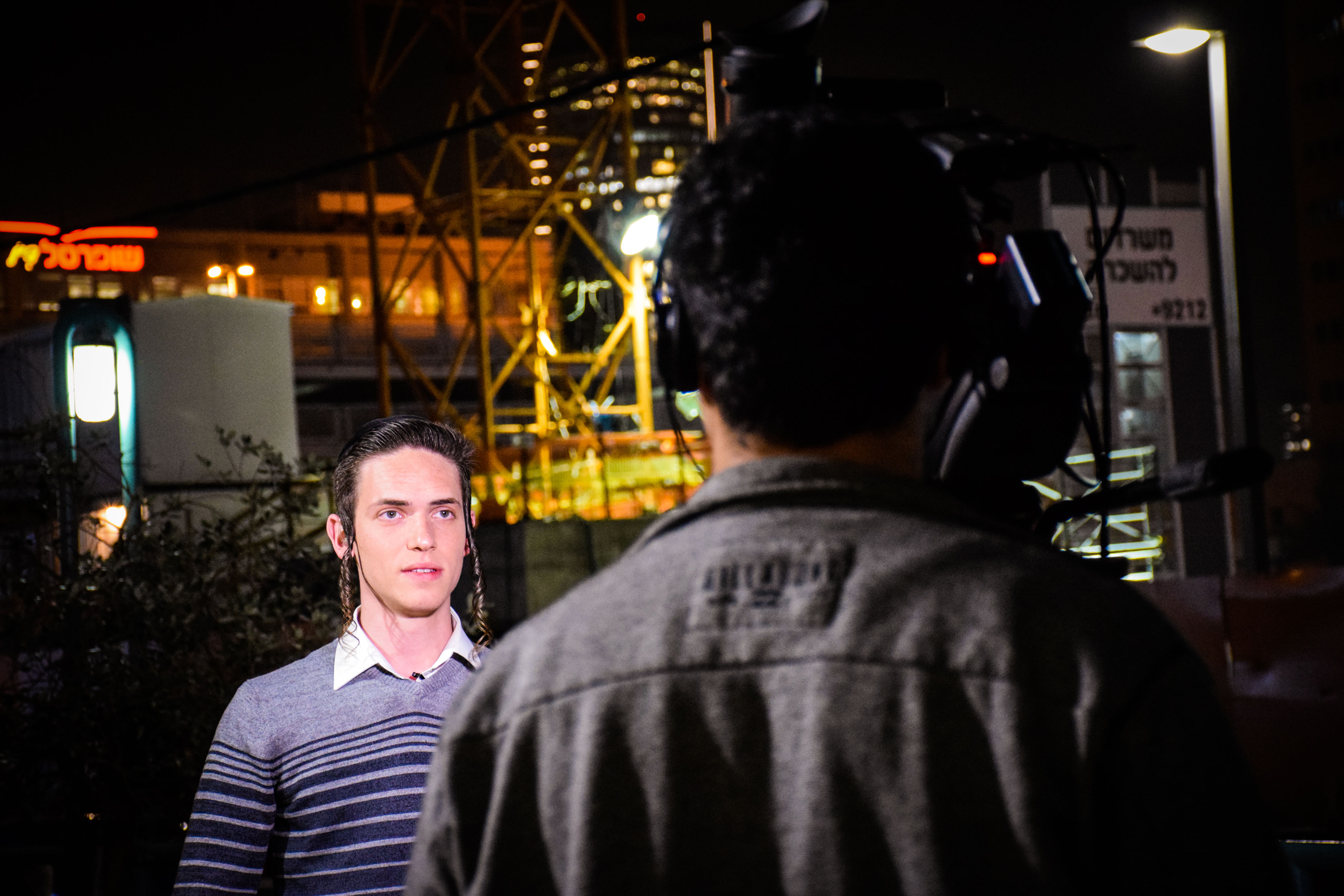 Melech Zilbershlag